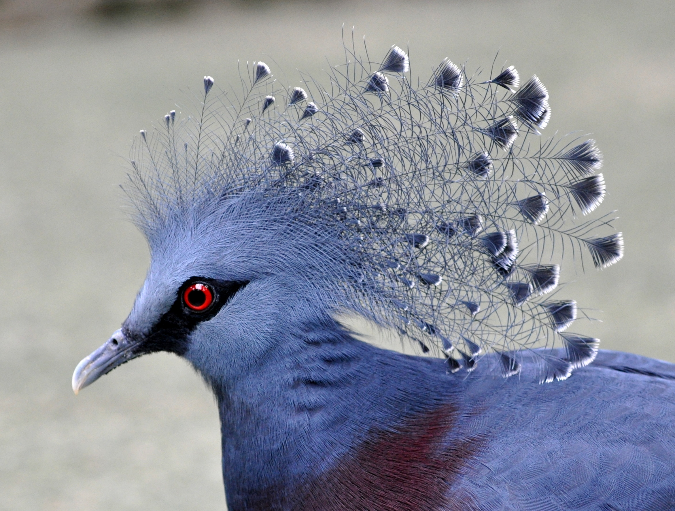 Victoria Crowned Pigeon (Goura victoria) in the Frankfurt Zoo.